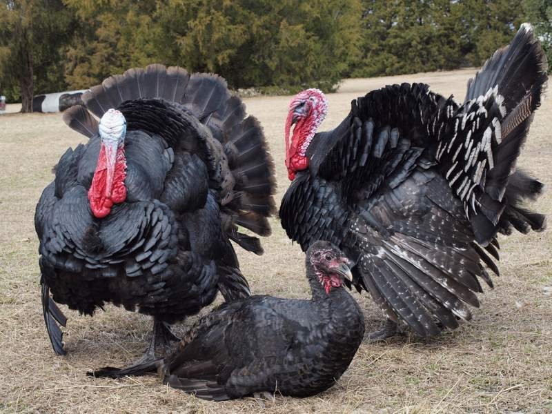 Black Spanish turkey toms and a hen.